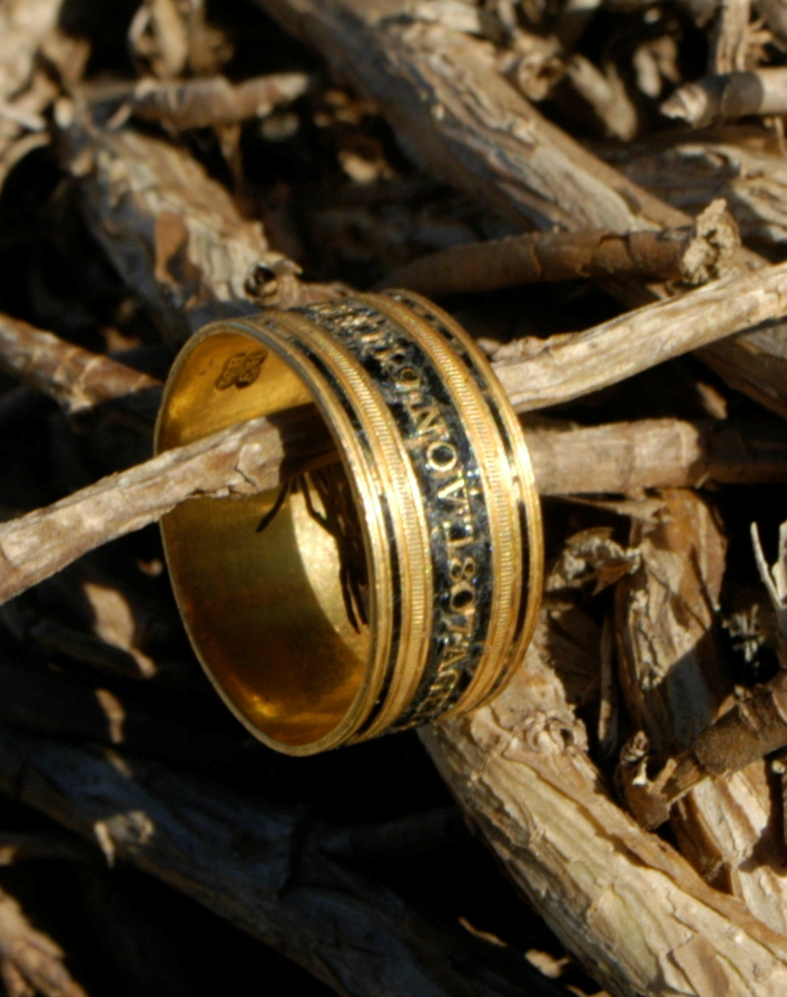 Photo (by me, R. de Salis, Rodolph (talk) 23:24, 23 February 2015 (UTC)) of a silver gilt mourning ring for PETER.DE SALIS.ESQ:DIED.19.NOV:1807.AGED.69.